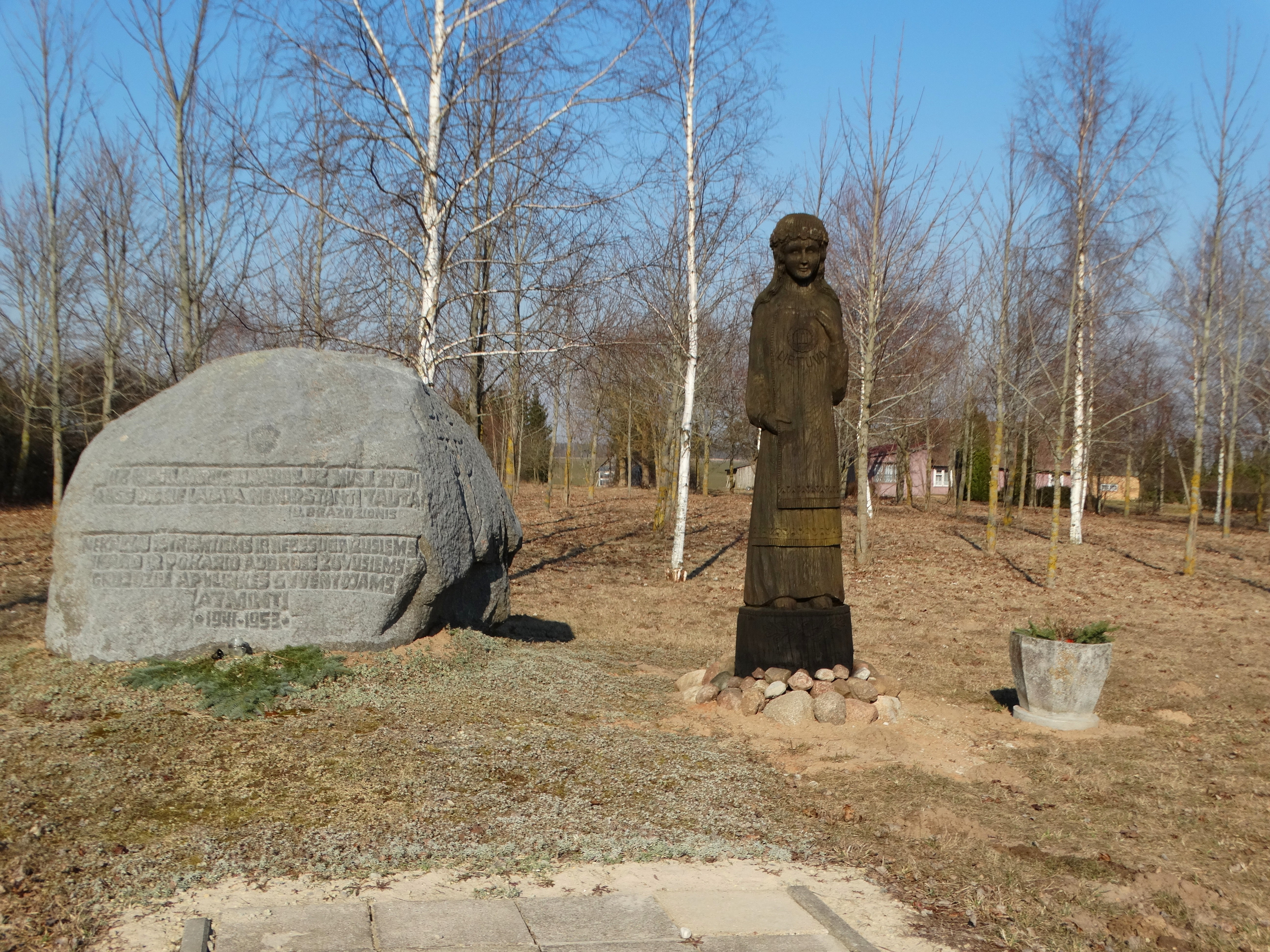 Inscribed stone, Šiupyliai, Šiauliai district, Lithuania